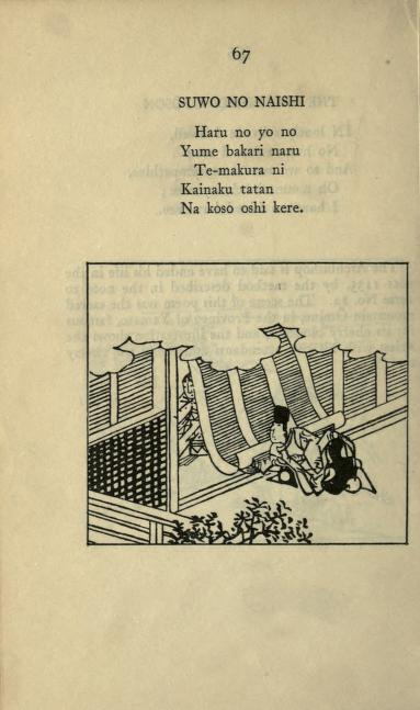 Poem 67 -- Fujiwara no Tadaie offers his arm to a lady-in-waiting. She declines with a verse. The image shows Tadaie outside a screen, and the Lady Suwo is just inside, hidden from sight: If I had made thy proffered arm A pillow for my head For but the moment's time, in which A summer's dream had fled, What would the world have said? -- translation by Porter